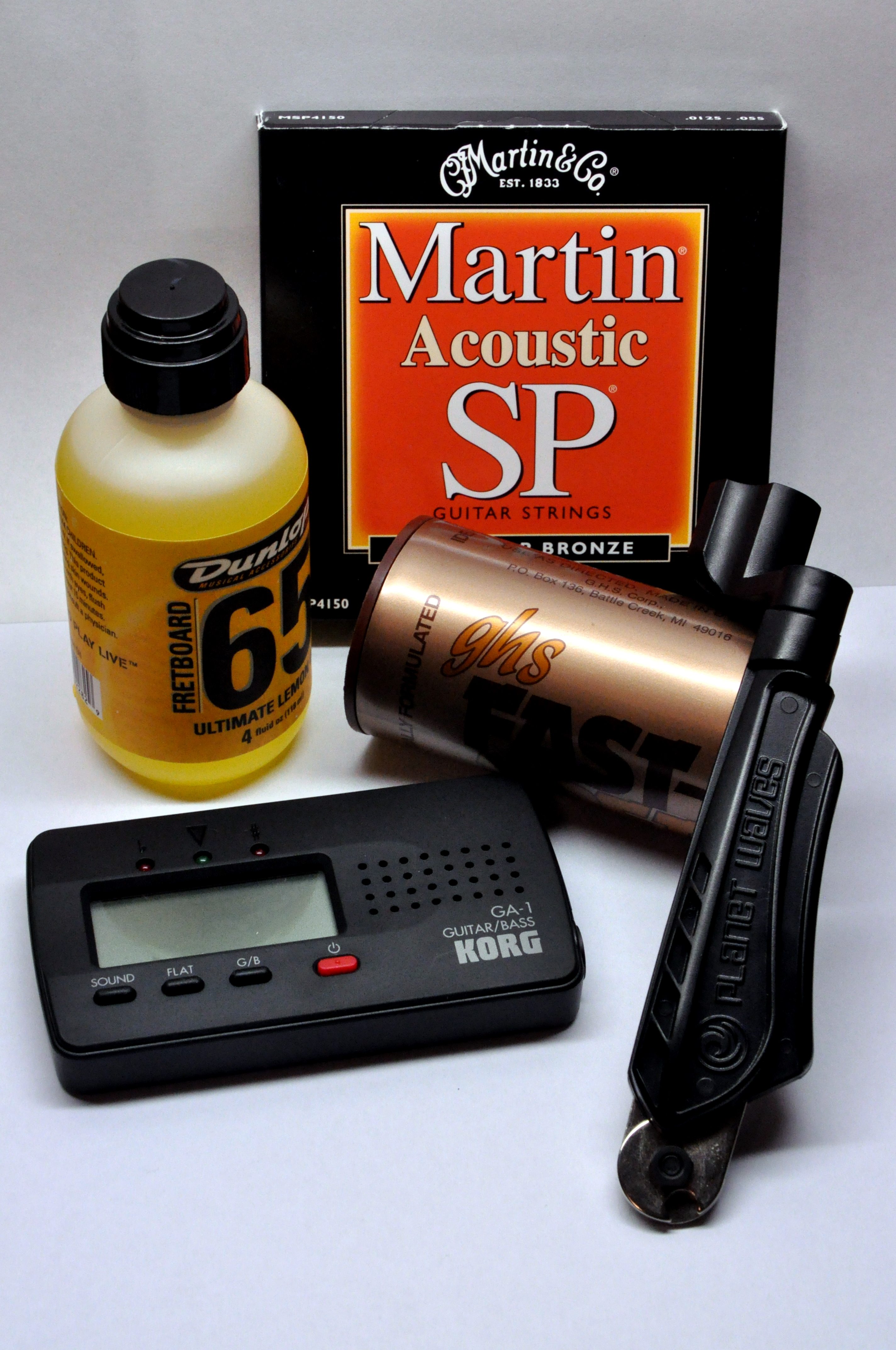 Dunlop Ultimate Lemon Oil, Martin Acoustic Guitar Strings, GHS Fast Fret String Cleaner, and Planet Waves Pro String Winder & Cutter. Not forgetting the KORG Guitar Tuner. Dunlop Ultimate Lemon Oil Martin Acoustic Guitar Strings GHS Fast Fret String Cleaner Planet Waves Pro String Winder & Cutter Korg GA-1 Guitar/Bass Tuner